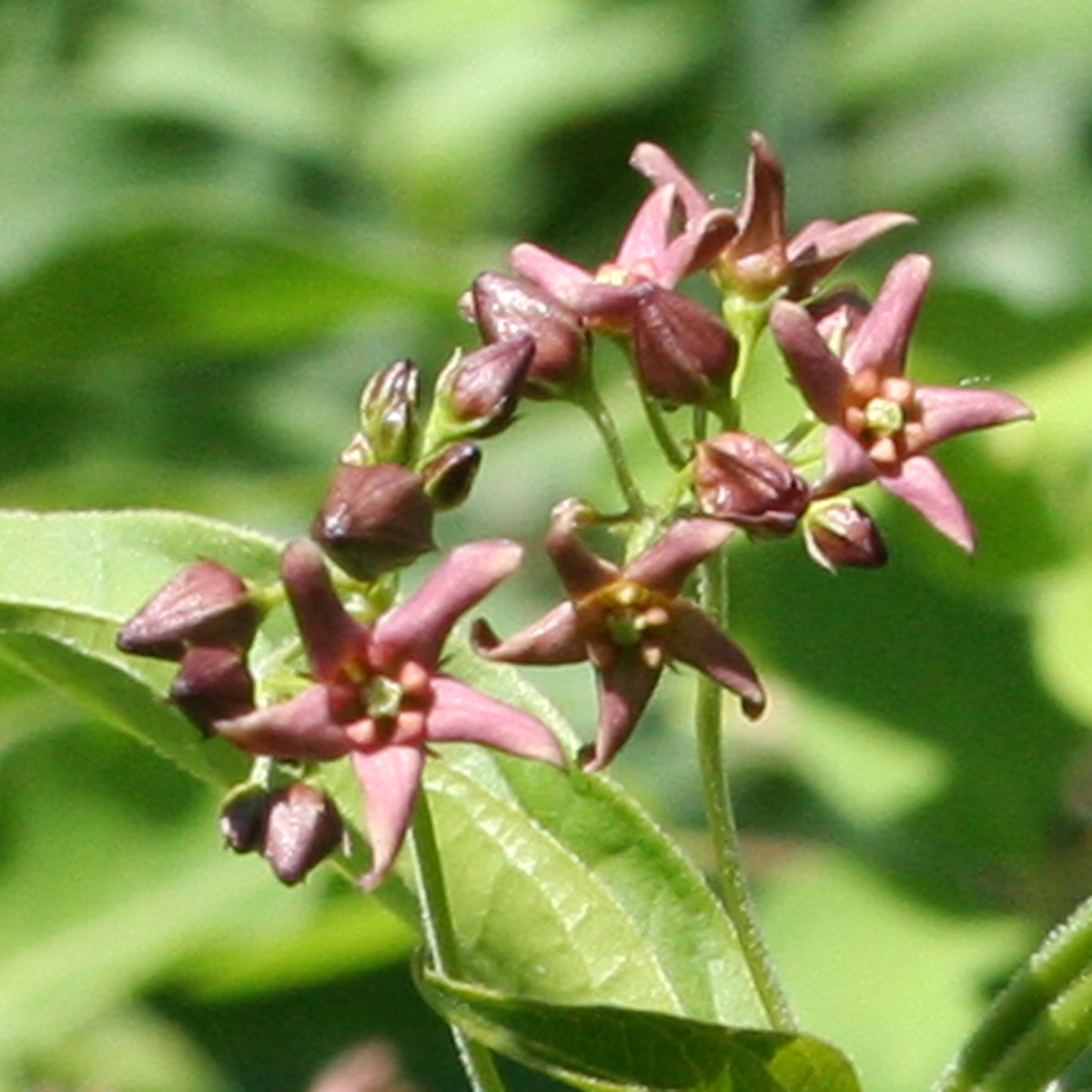 Vincetoxicum rossicum (pale swallow-wort), at the Skaneateles Conservation Area, Onondaga County, New York.)